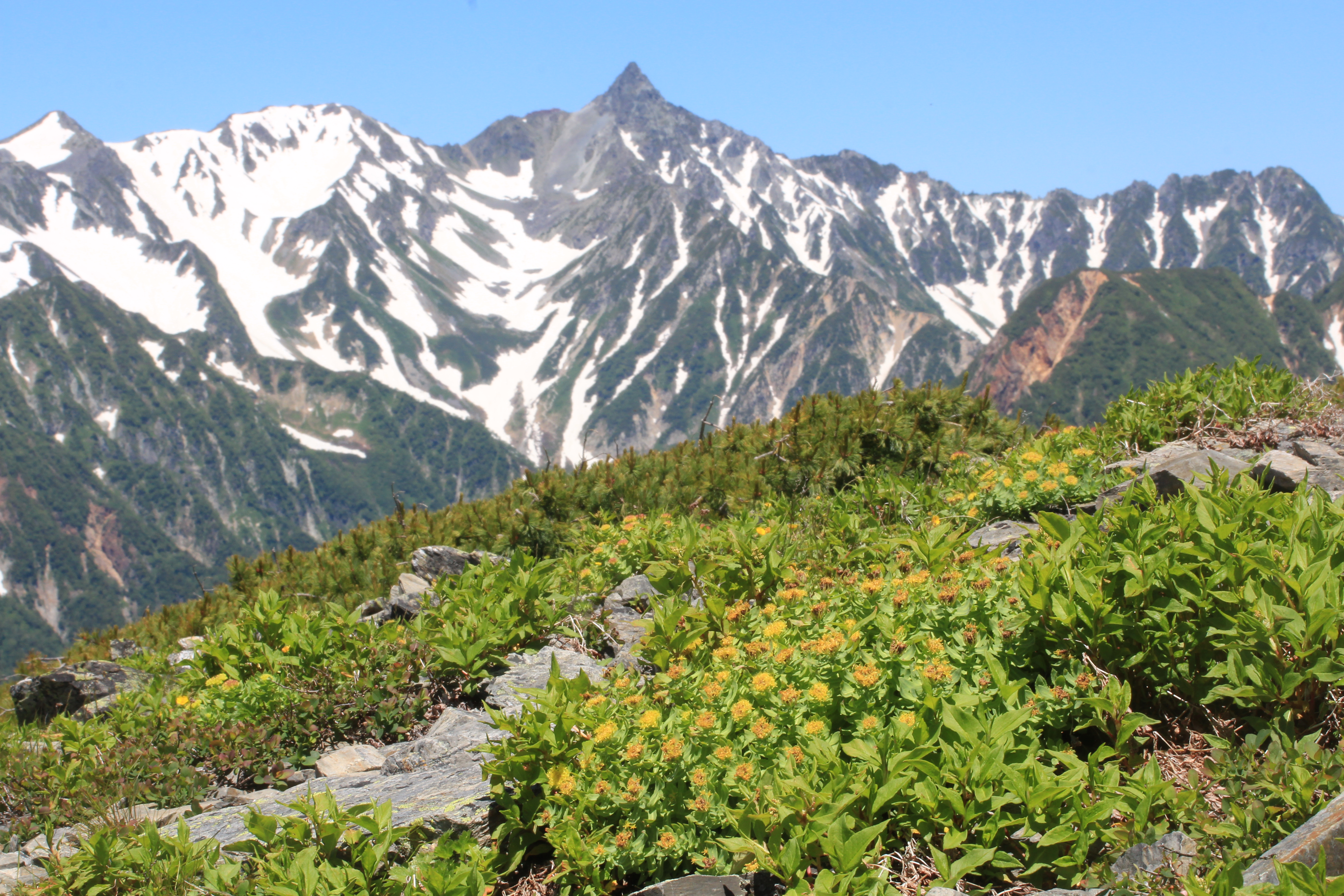 Rhodiola rosea and Mount Yari, in Mount Chō, Matsumoto, Nagano prefecture, Japan.